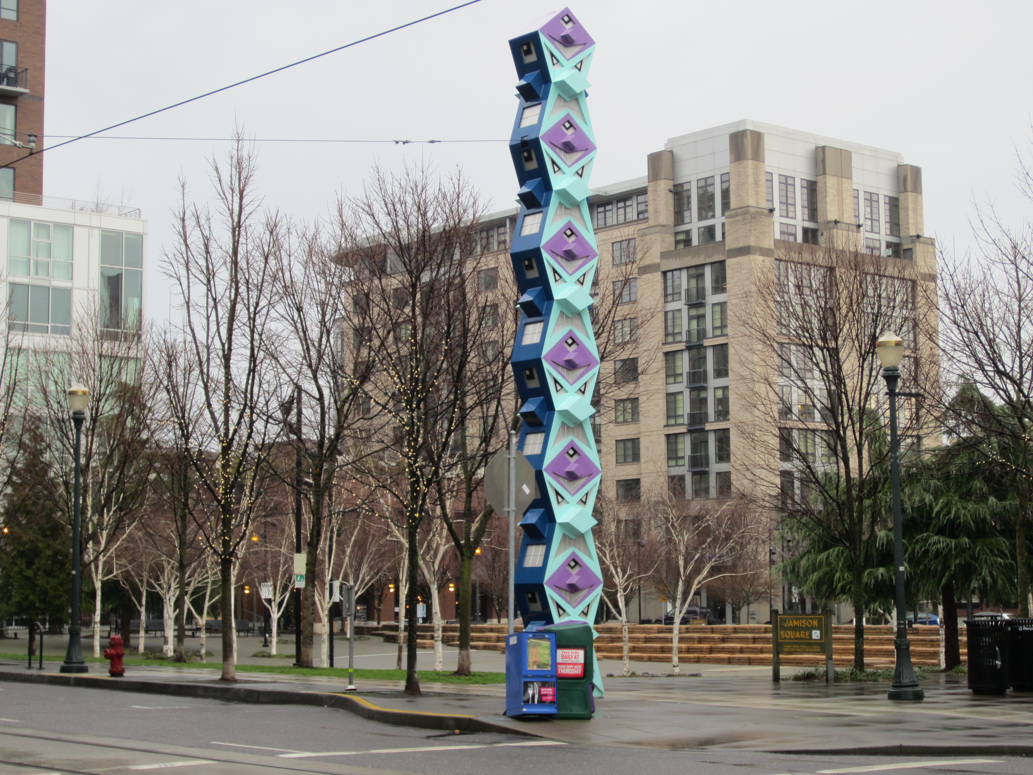 Totem at Jamison Square in Portland, Oregon's Pearl District in January 2012. As can be seen here, the 2001-installed totems are actually covers for steel poles supporting the overhead trolley wires that power the Portland Streetcar, which began operation in 2001.